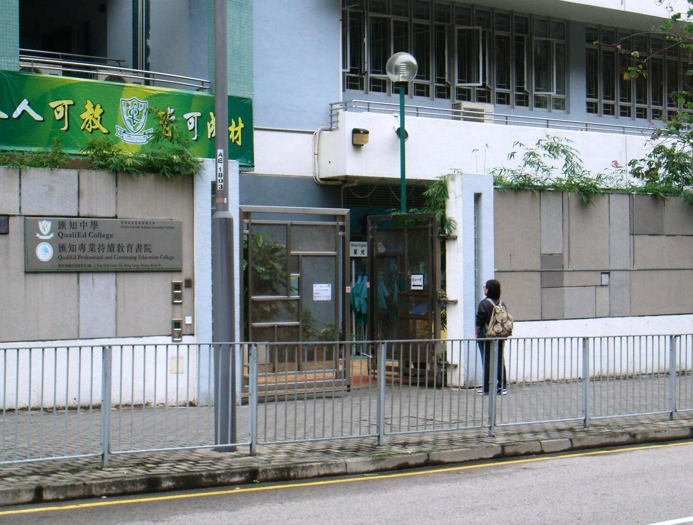 QualiEd College